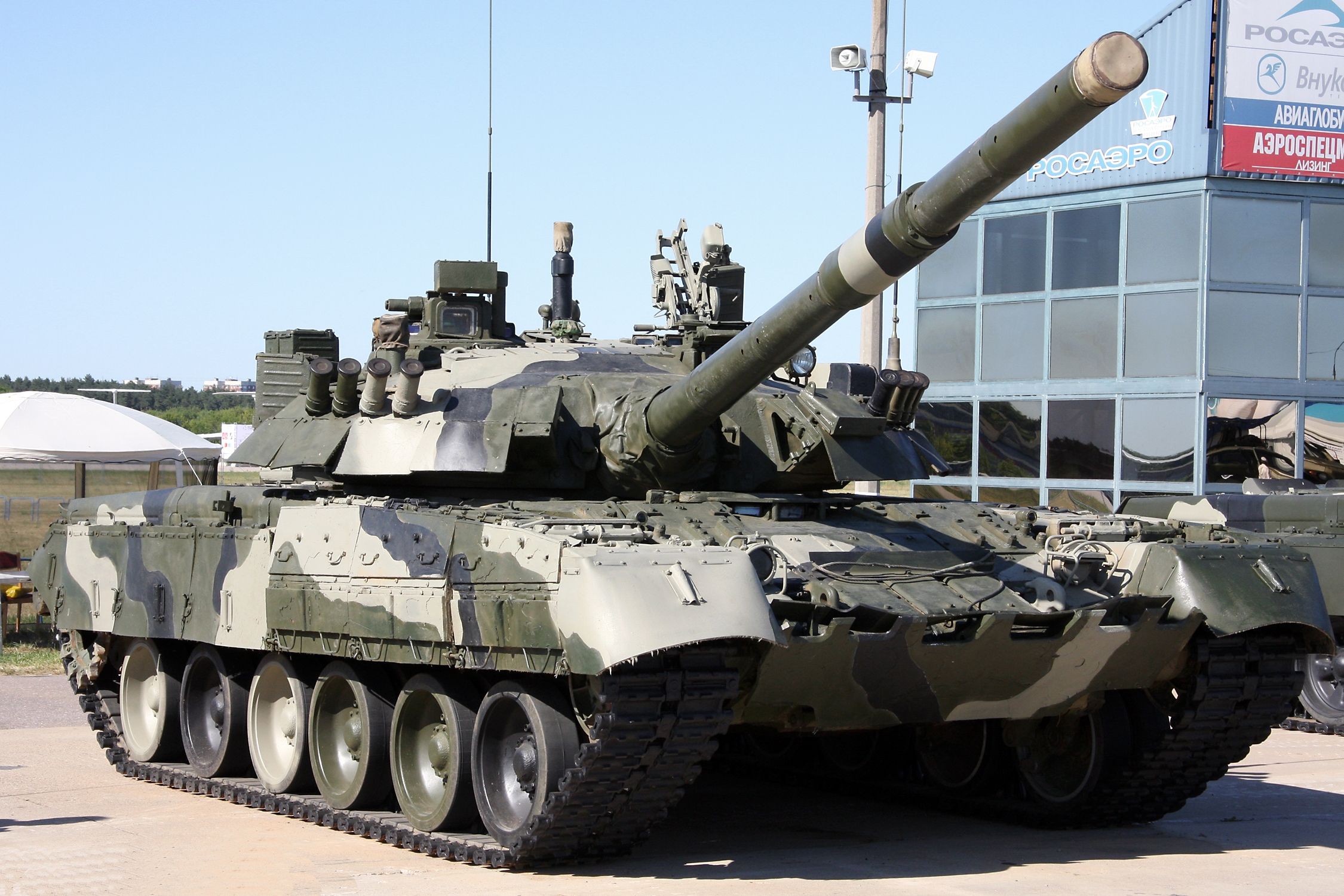 A T-80 tank at the Engineering Technologies 2010 international forum.